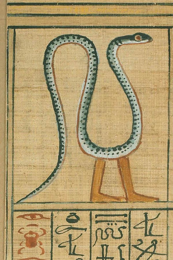 Book of the Dead of Ani; sheet 27; full colour vignettes. Spell 87.